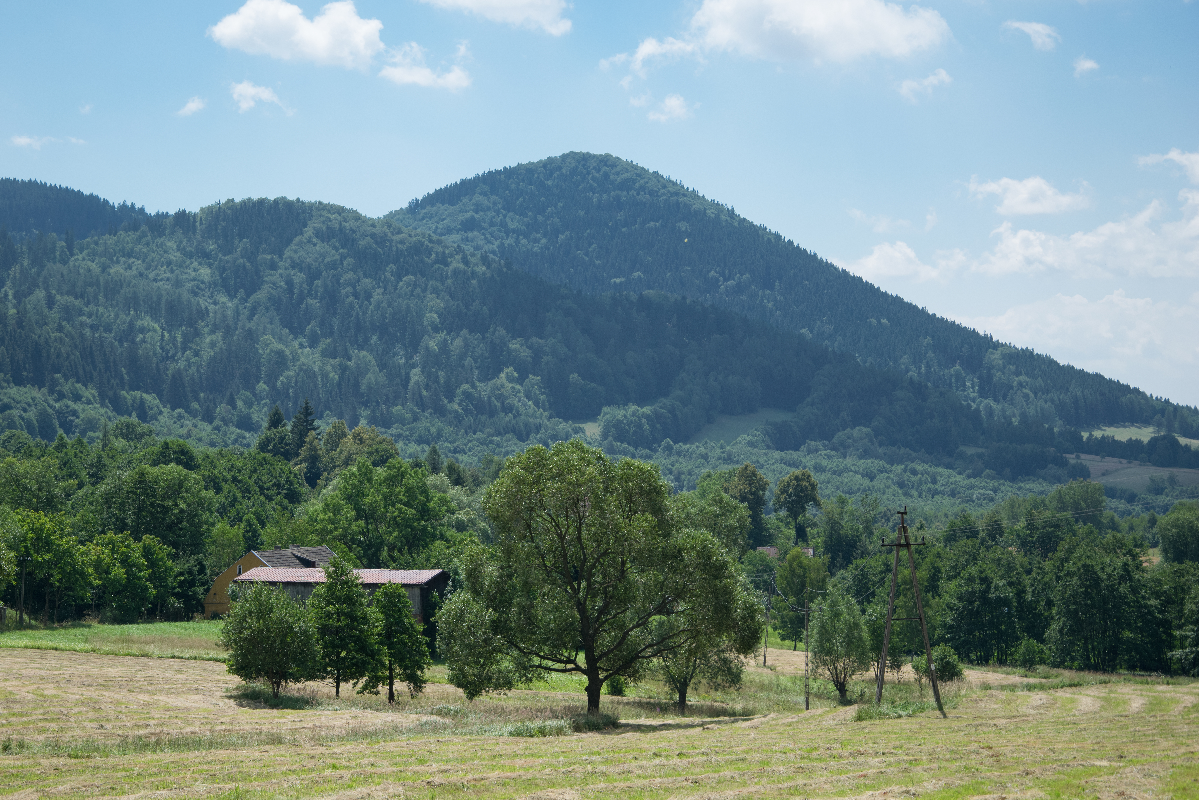 Igliczna, Śnieżnik Mountains, Sudetes